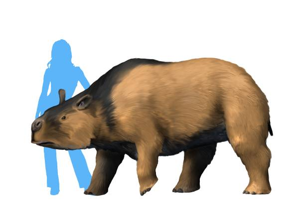 Life reconstruction of Toxodon platensis